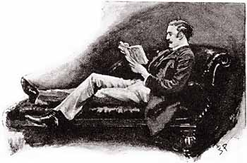 Illustration of the Sherlock Holmes short story The Boscombe Valley Mystery, which appeared in The Strand Magazine in October, 1891. Original caption was "I TRIED TO INTEREST MYSELF IN A YELLOW-BACKED NOVEL."